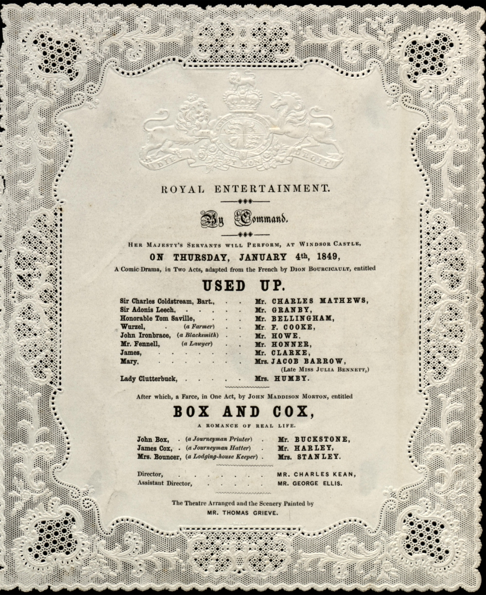 Scan of original 1849 programme for the Royal Command performance of Box and Cox at Windsor Castle.